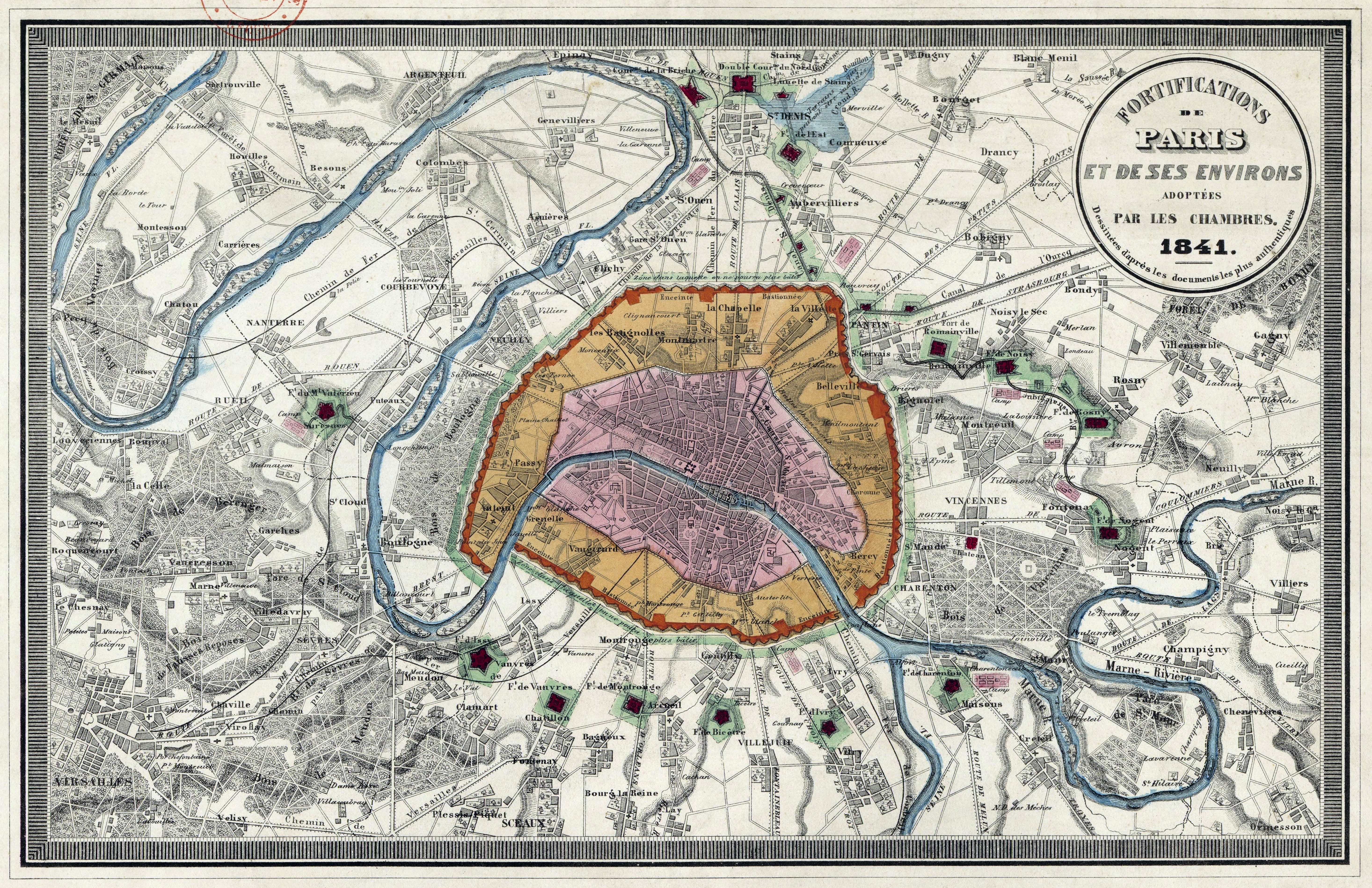 Map of the fortifications of Paris.